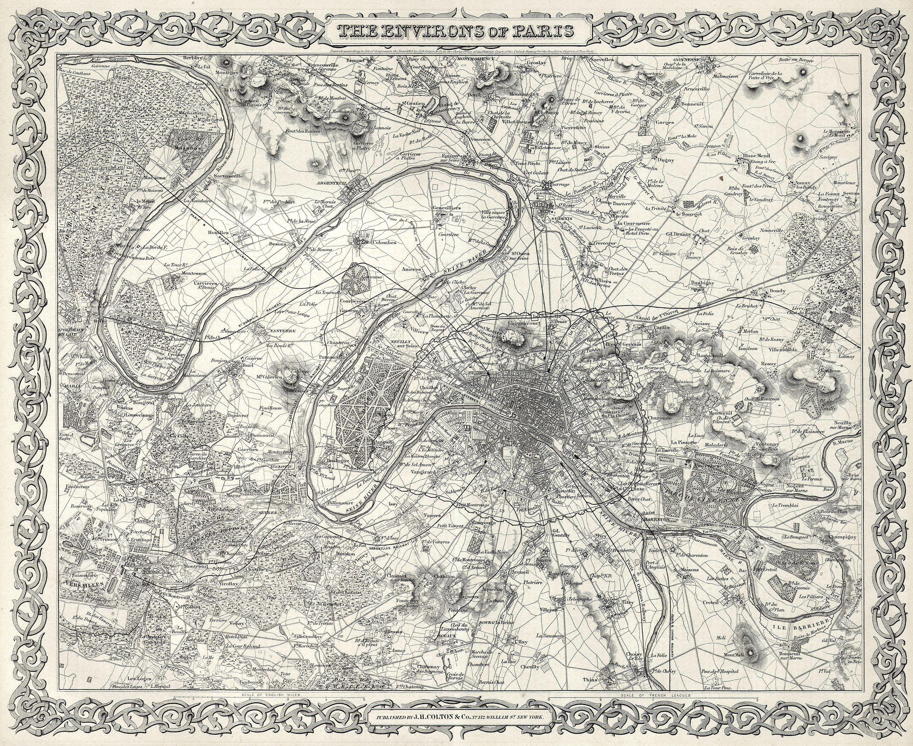 This rare hand colored map of Paris and Environs is a copper plate engraving dating to 1855. Produced by the respected mid 19th century American Mapmaker J. H. Colton. Map covers the Seine valley in a roughly 30 mile radius of Paris. Versailles appears in the extreme southwest and Vitry in the extreme northeast. The whole is beautifully detailed down to individual buildings. A beautiful and superbly detailed map.